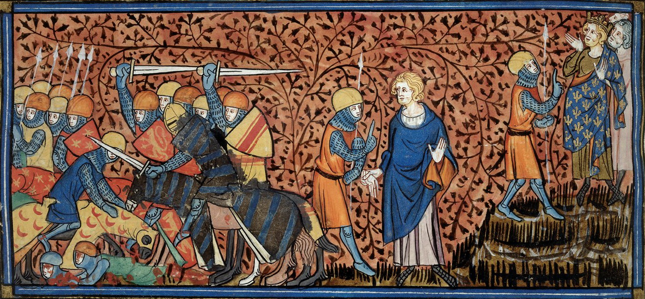 Duke William the Bastard defeating the French, and Duke William sending a herald to Henry I of France. (British Library, Royal 16 G VI f. 266v)